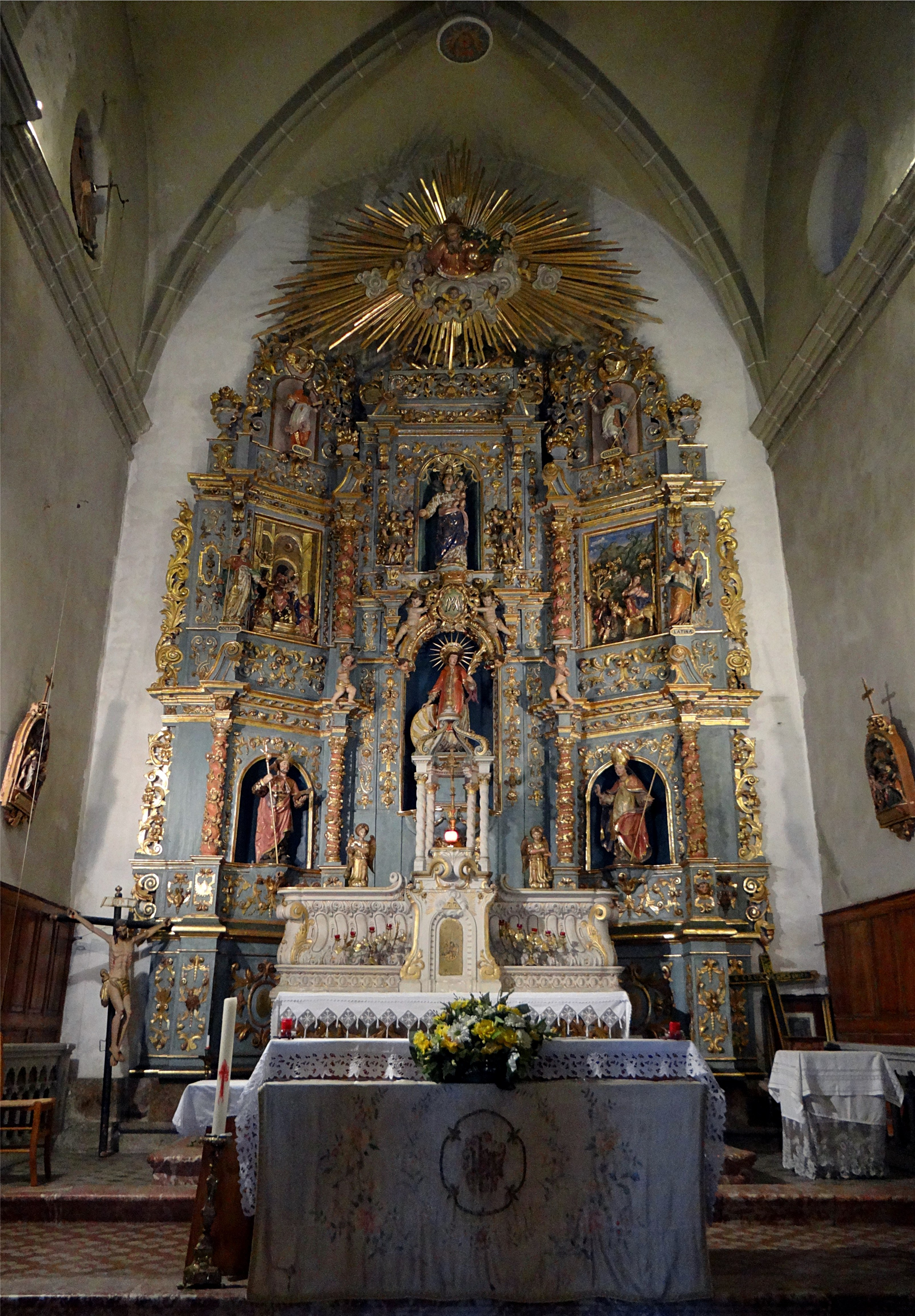 Choir of church Saint Vincent d'En High Eus, Pyrenees-Orientales, France. This building is en partie classé, en partie inscrit au titre des Monuments Historiques.